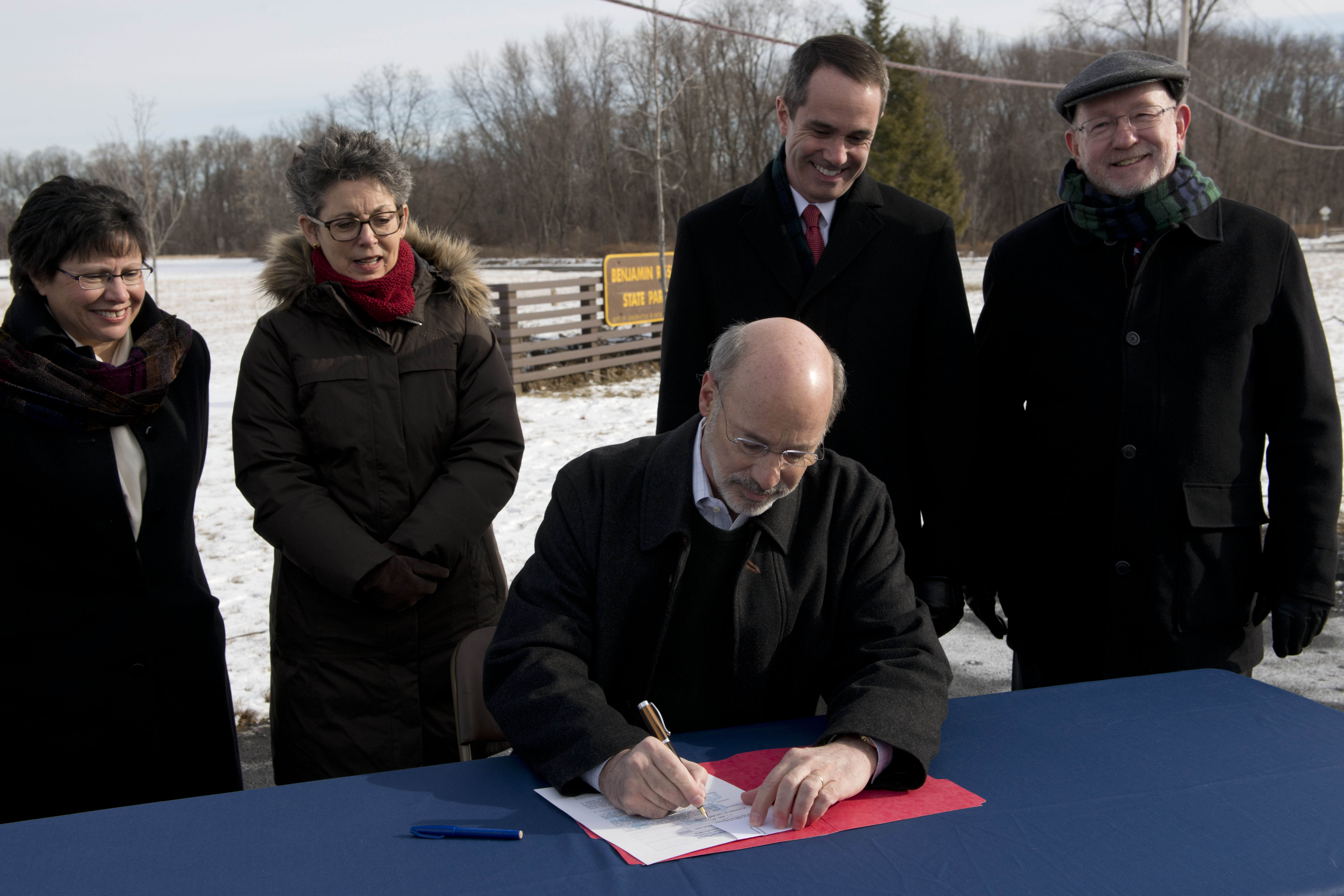 January 29, 2015 Philadelphia, PA